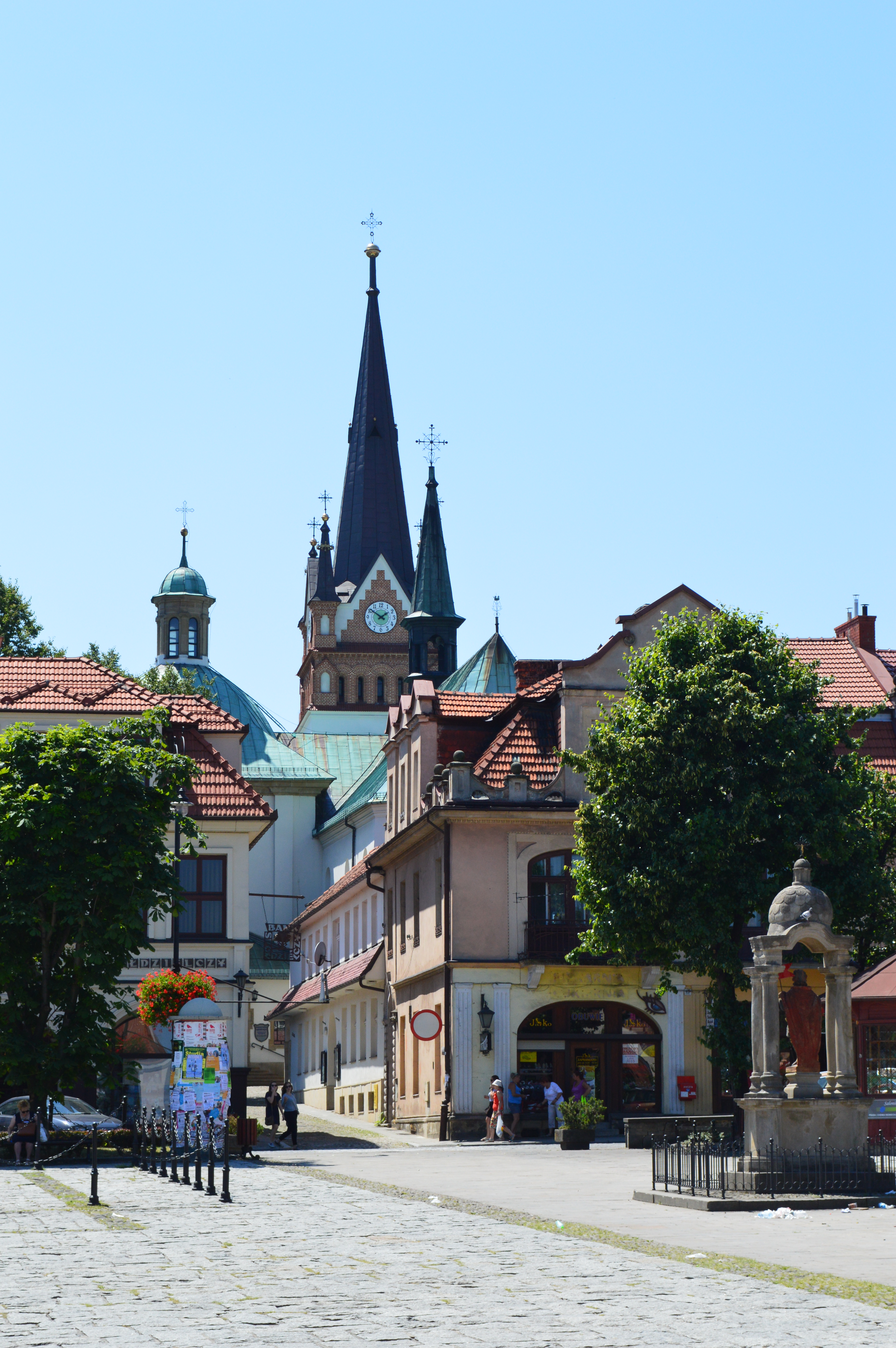 Market Square (Rynek) in Myślenice.The Scotch Mist Gallery contains many photographs of historic buildings, monuments and memorials of Poland.